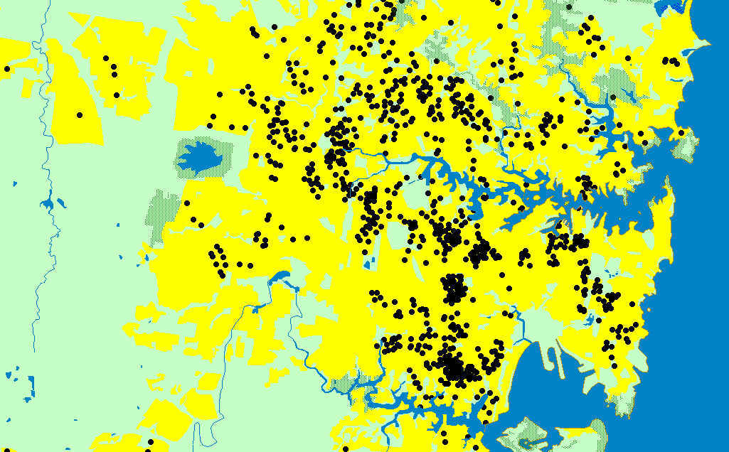 One dot equals 100 PRC-born Sydney residents